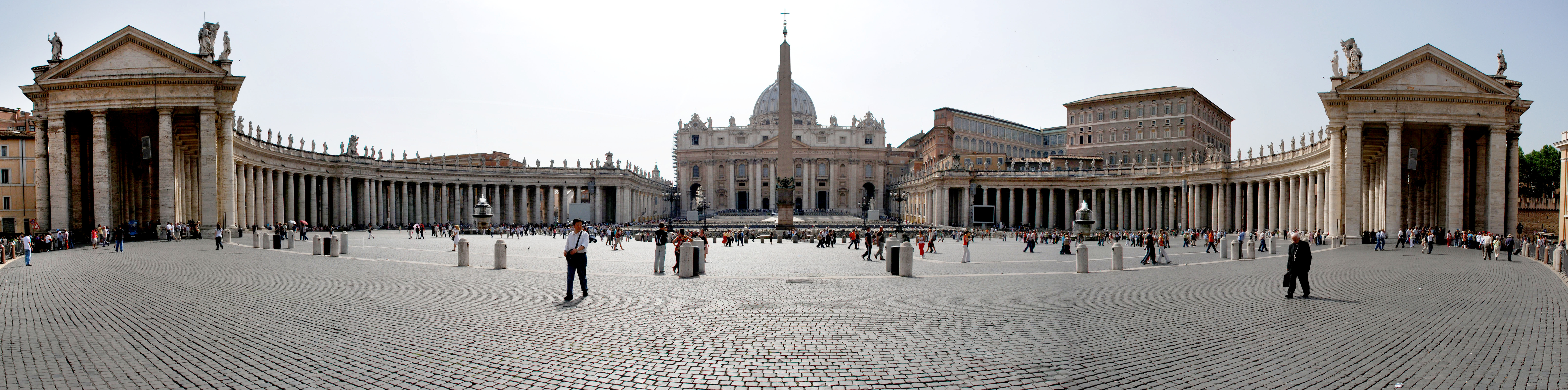 A panorama of Saint Peter's Square in the Vatican. Panorama stitched from 5 photos